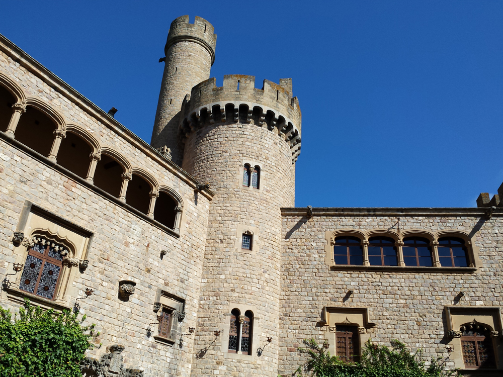 Santa Florentina Castle